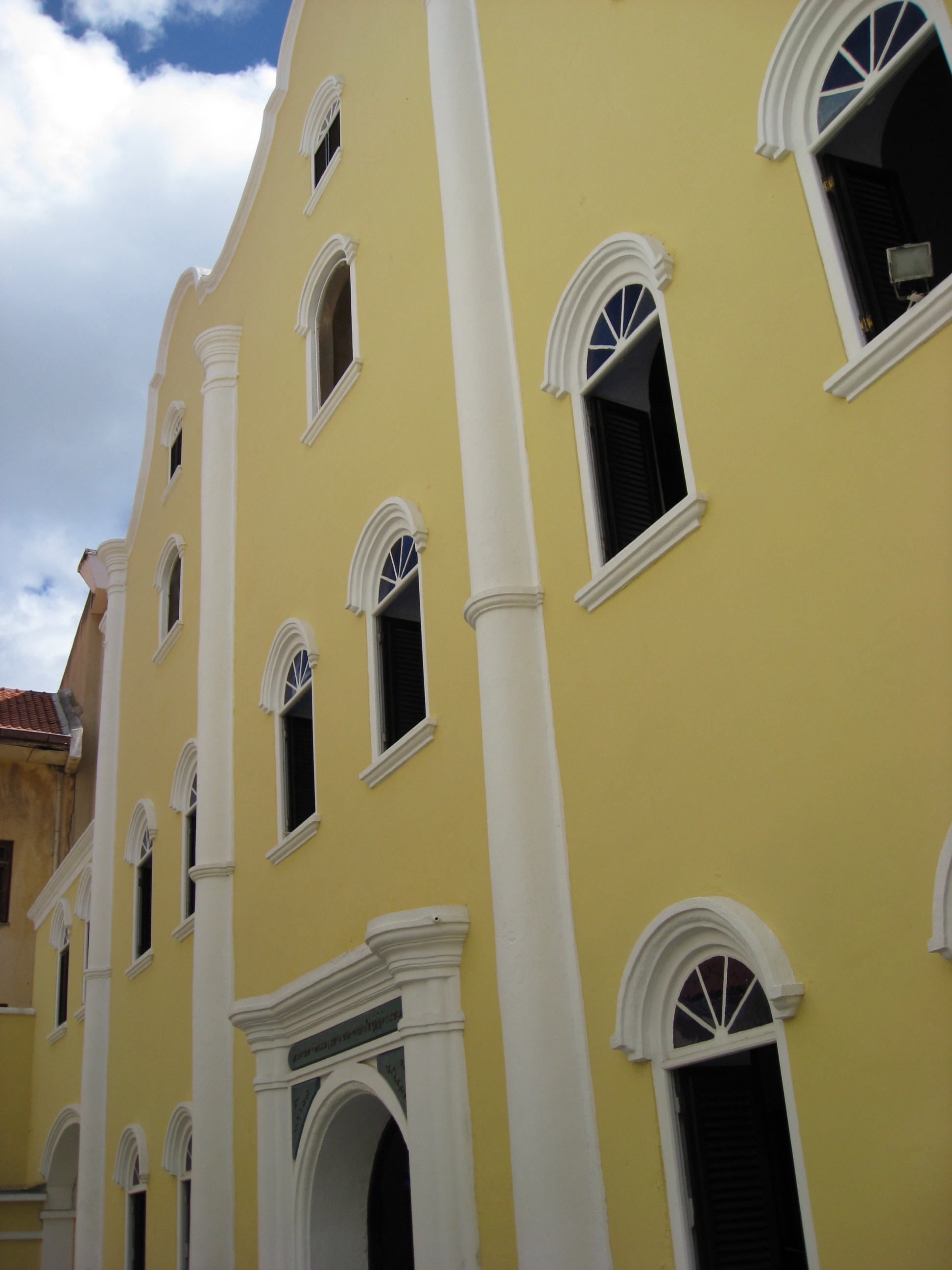 Mikvé Israel-Emanuel Synagogue, Willemstad, Curaçao, western facade